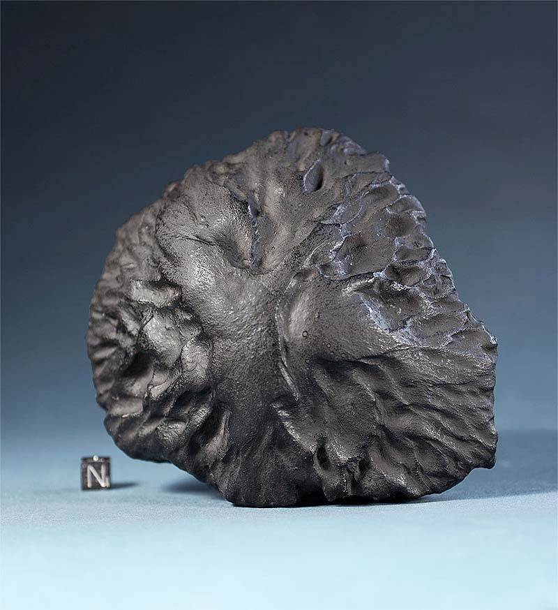 A cast of the Middlesbrough meteorite, a textbook example of an oriented meteorite that fell on 14 March 1881 in Middlesbrough, North Yorkshire, England, UK.